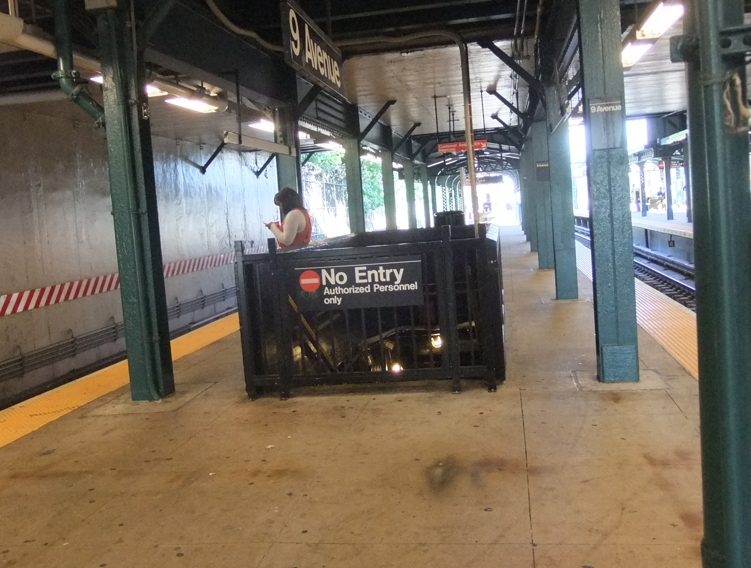 Stair to the closed lower level platform at the 9th Avenue station